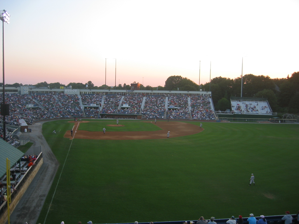 The Portland Sea Dogs hosting Trenton Thunder at Hadlock Field on August 29, 2007. 12:30, 30 August 2007 . . Dudesleeper . . 1,024×768 (261 KB)